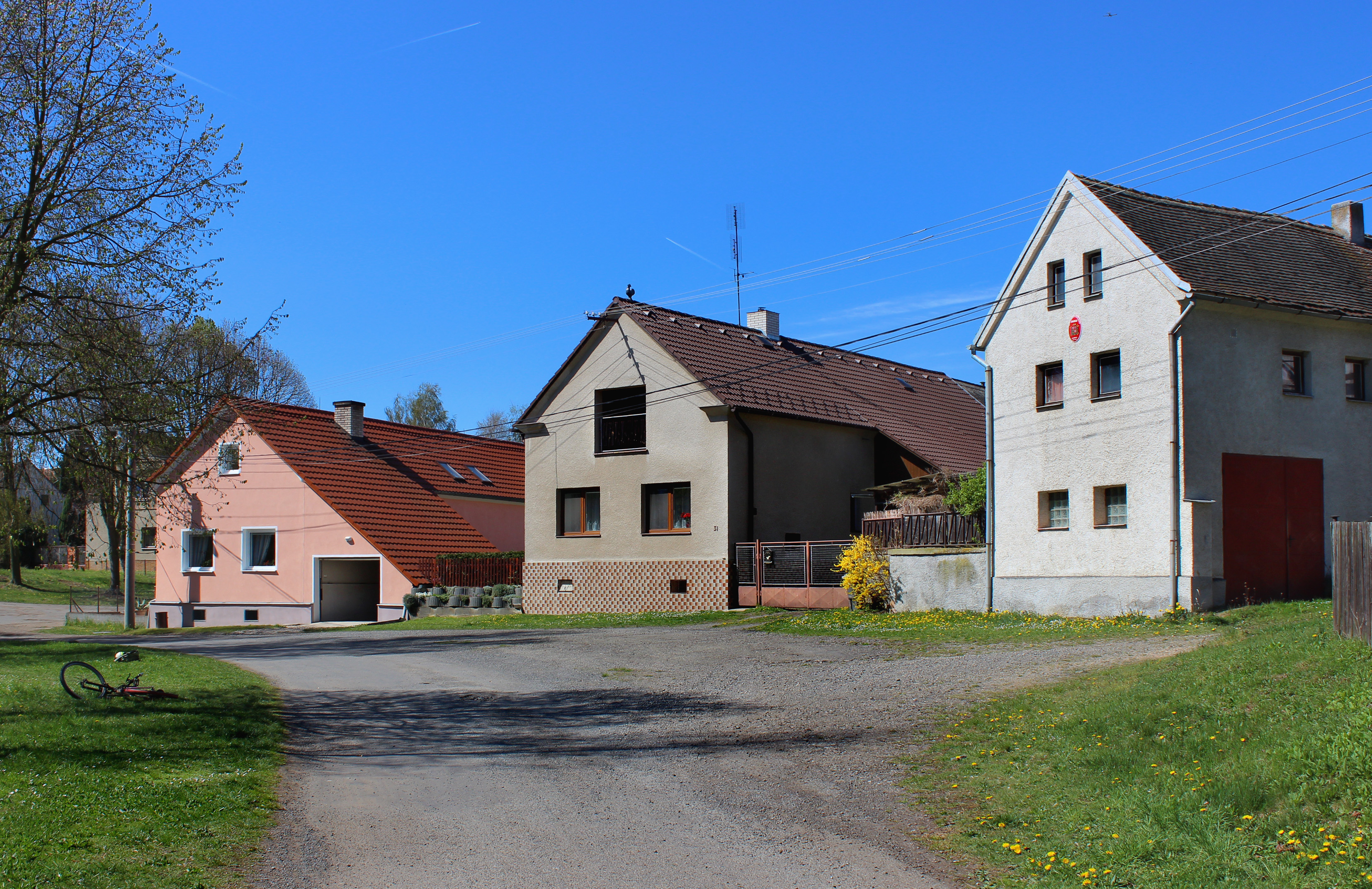 Common in Únehle village, Czech Republic